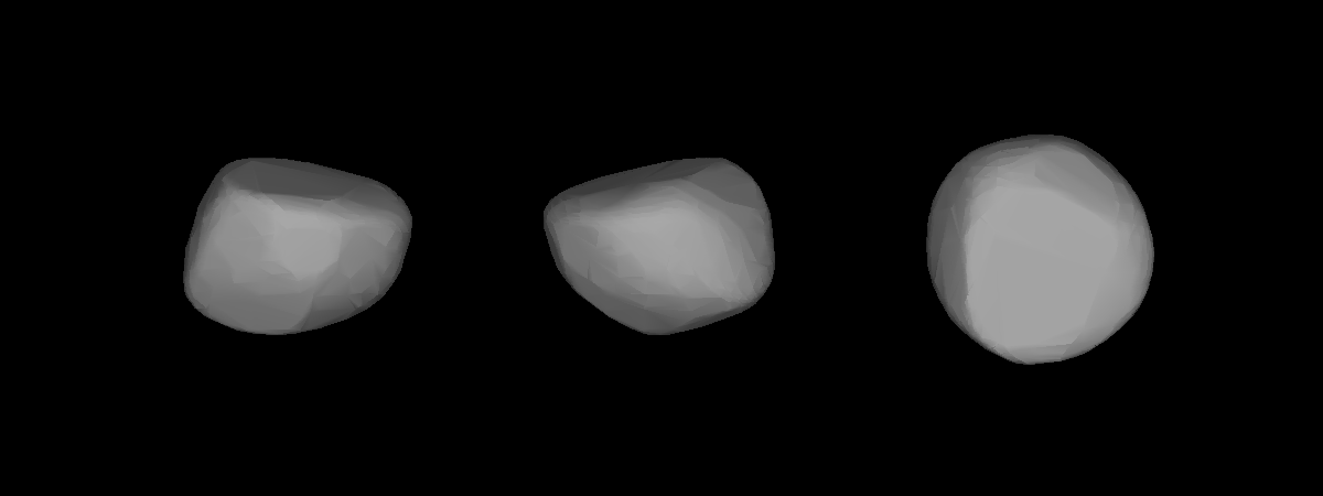 A three-dimensional model of 409 Aspasia that was computed using light curve inversion techniques.